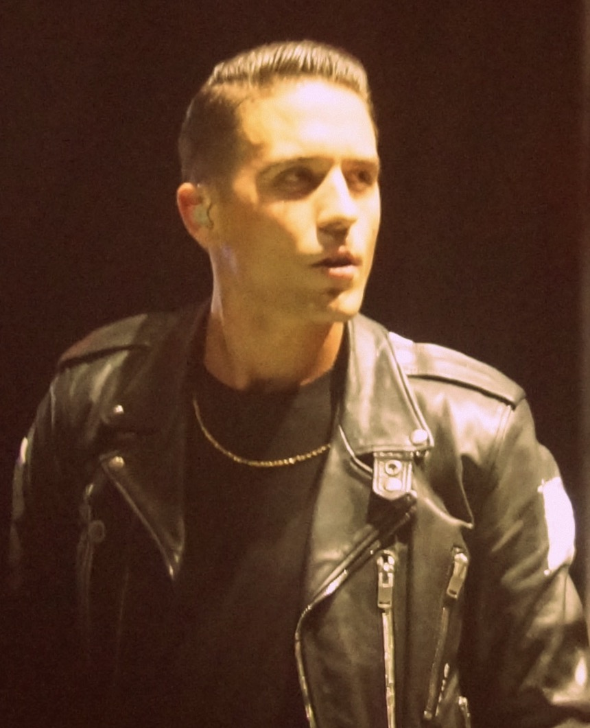 G-Eazy performing at the Lollapalooza Music Festival More freely usable Lollapalooza 2015 Pictures.